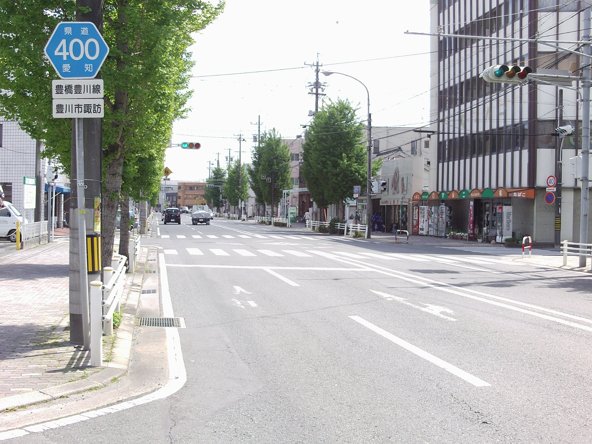 The Aichi Prefectural Road Route 400 in Suwa 3-chome, Toyokawa City